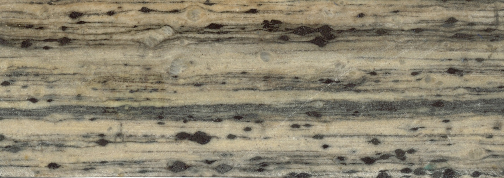 LS-tectonite from the Paraiba do Sul Shear Zone (Brazil). Foliation and lineation are done by flattened and stretched (ellipsoidals) feldspar, amphibole and orthopyroxene porphiroclasts. The lineation lies in the plane of foliation. Picture taken parallel to S-plane